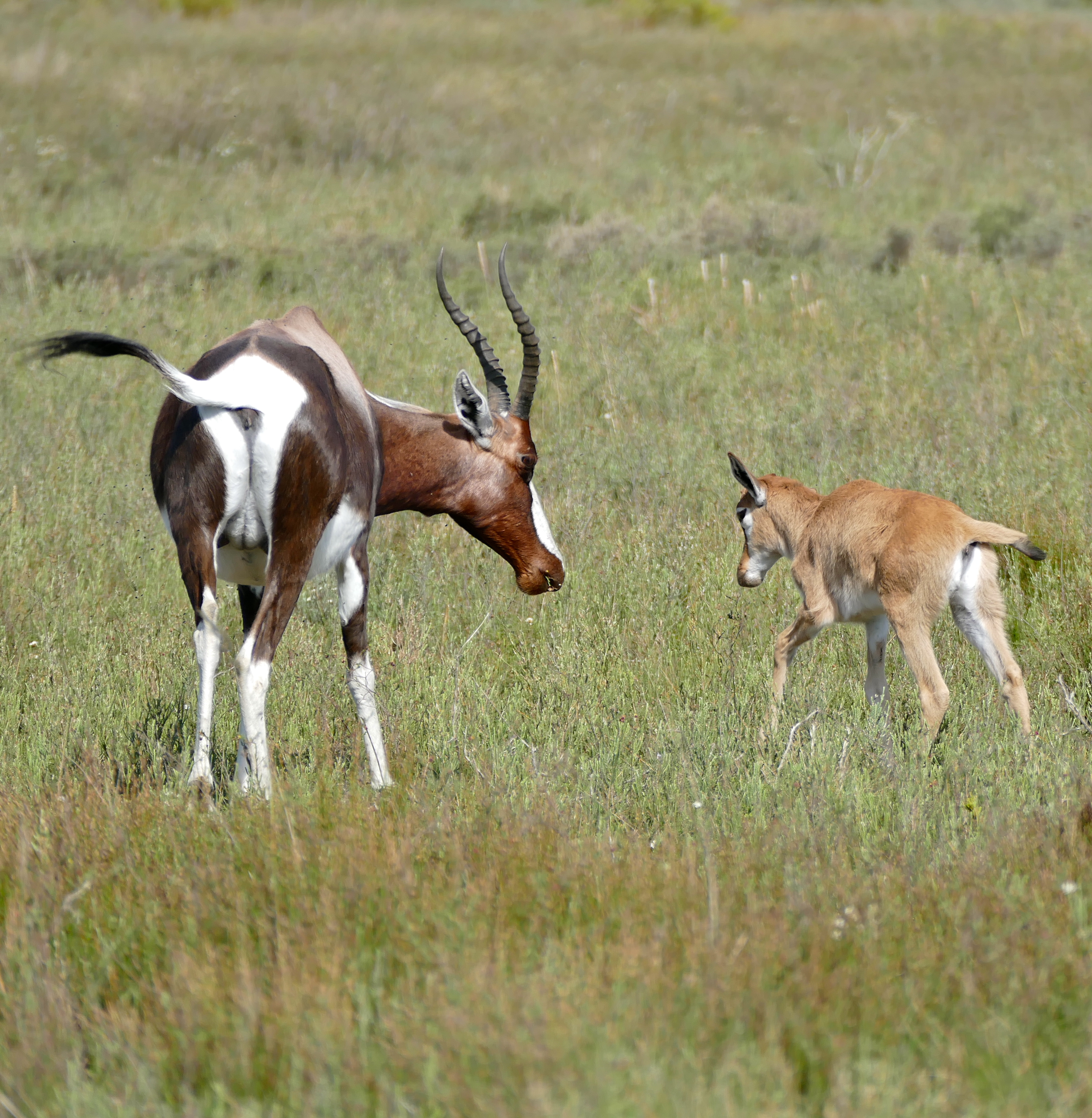 Bontebok NP, Western Cape, SOUTH AFRICA